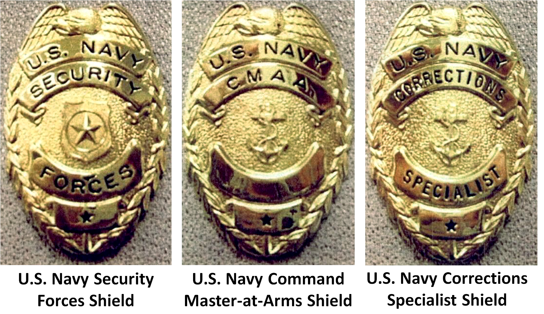 Image of law enforcement identification badges used in the US Navy. For use in USN articles concerning badges.